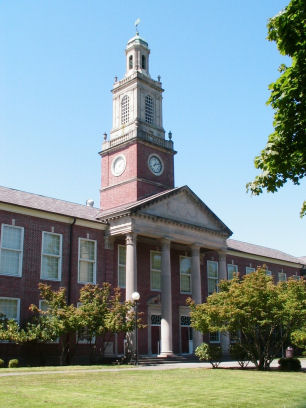 Photo by Kearby Chess of R. A. Long High School, a publicly owned building, taken in fall 2005.